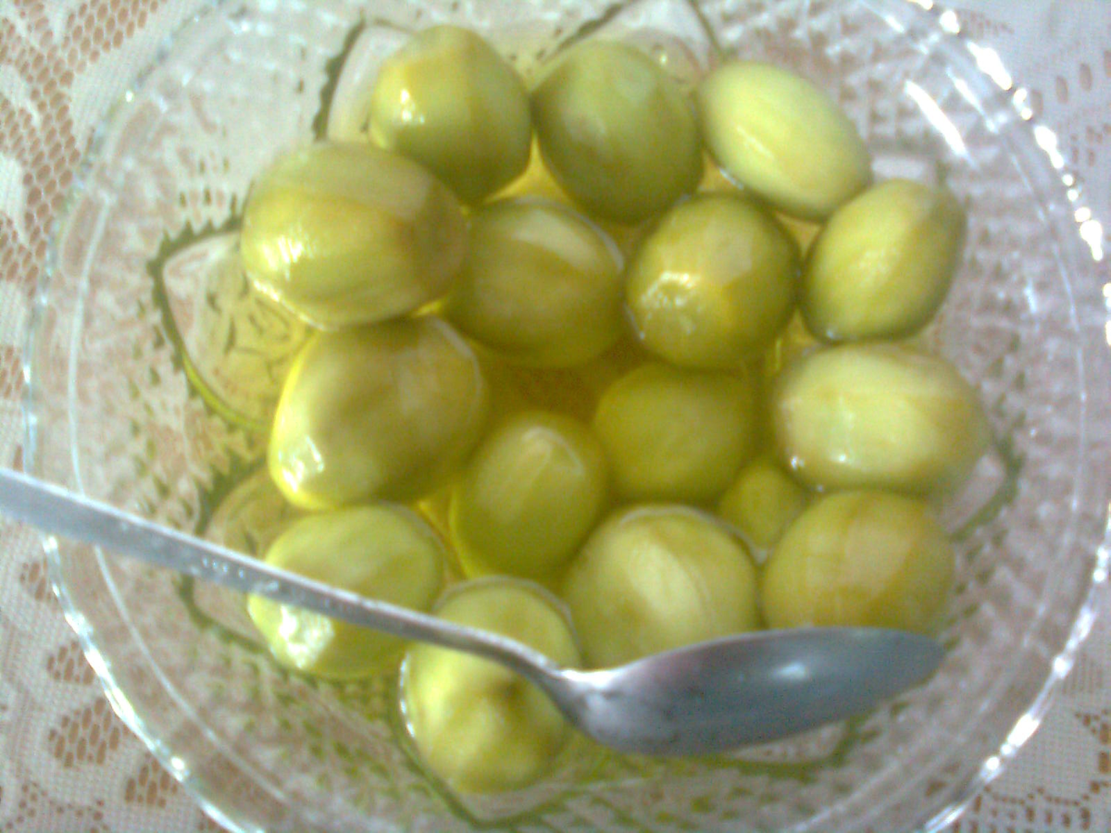 Acar kedondong, Spondias dulcis pickles from Bangka, Indonesia